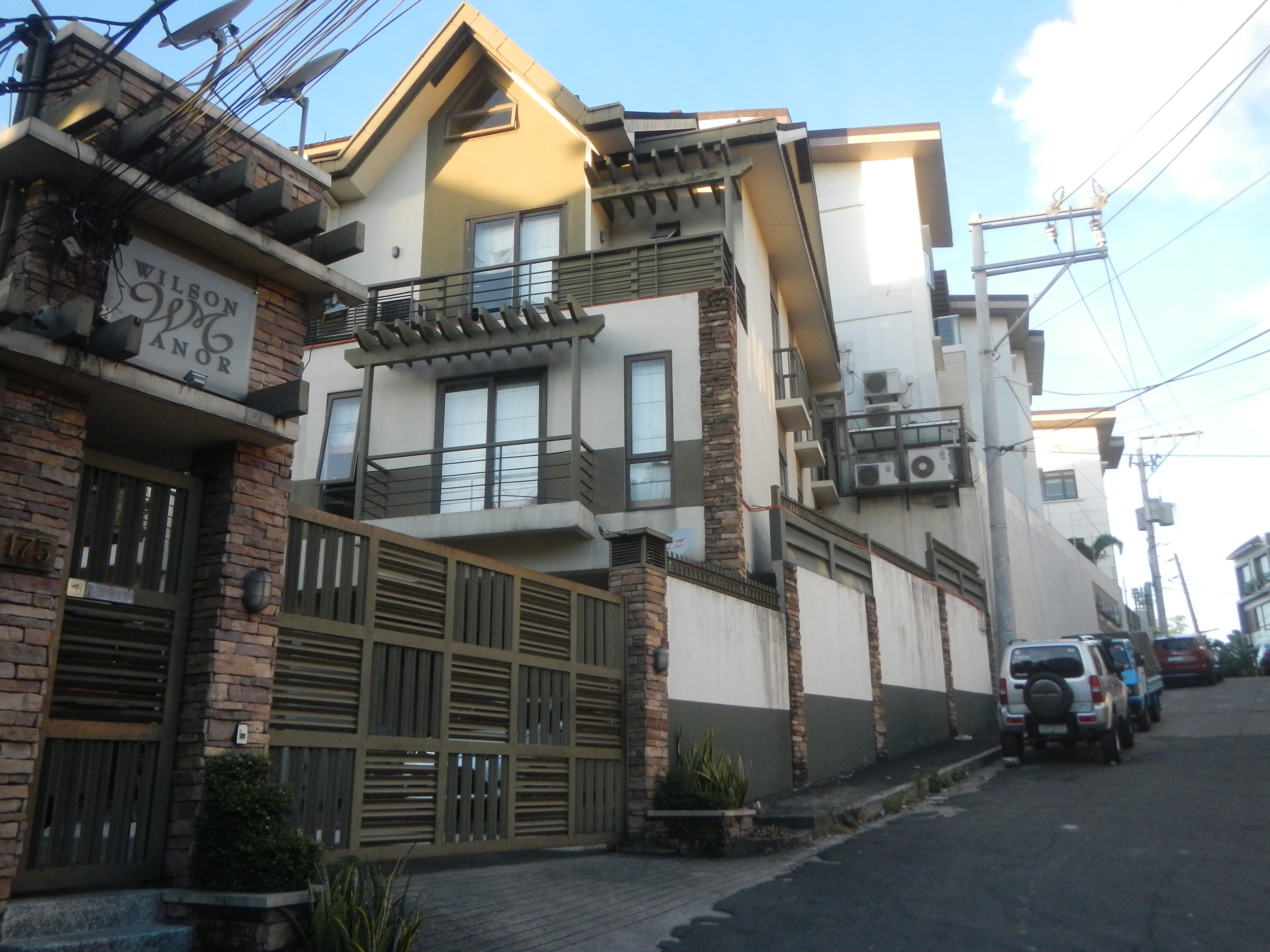 One Wilson Place - One86 At Wilson - Wilson Manor Wilson Street F. Blumentritt Street 14°35'55"N 121°1'45"E Major roads in Metro Manila in the List of barangays of Metro Manila, Legislative district of San Juan-Mandaluyong Legislative district of San Juan, Metro Manila Barangays Maytunas14°35'43"N 121°2'1"E Maytunas Creek Latitude: 14°35'40.2" Longitude: 121°1'48"Addition Hills San Perfecto 14°36'11"N 121°1'23"E San Juan, Metro Manila (Note: Judge Florentino Floro, the owner, to repeat, Donor Florentino Floro of all these photos hereby donate gratuitously, freely and unconditionally all these photos to and for Wikimedia Commons, exclusively, for public use of the public domain, and again without any condition whatsoever).